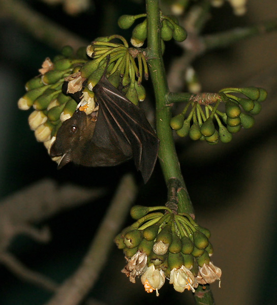 Greater short-nosed fruit bat Cynopterus sphinx in Kolkata, West Bengal, India.